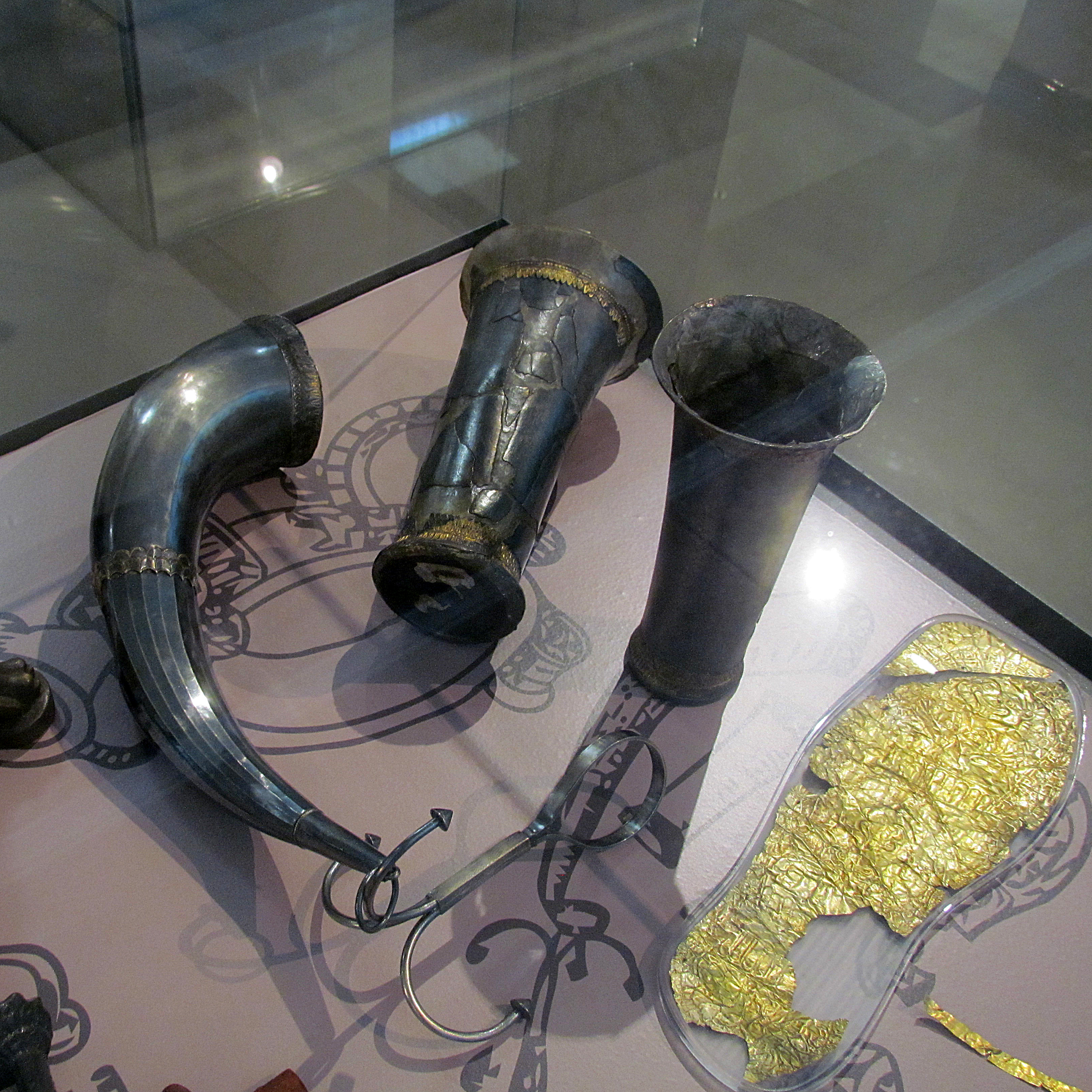 Trebenište necropolis, National Museum in Belgrade